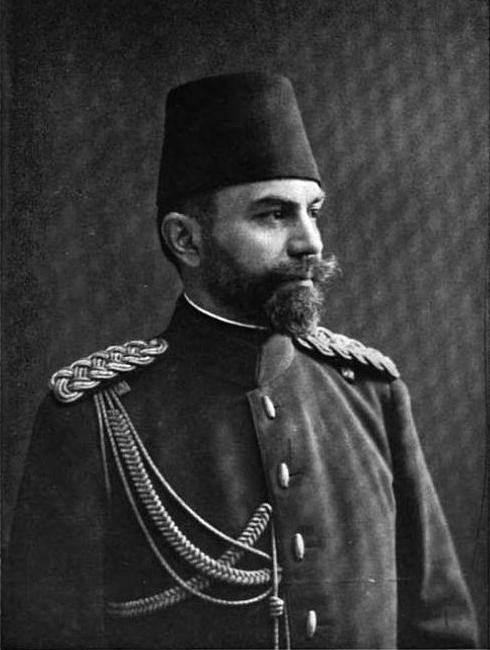 Mahmud Muhtar Pasha (d. 1935) Ottoman Minister of the Navy